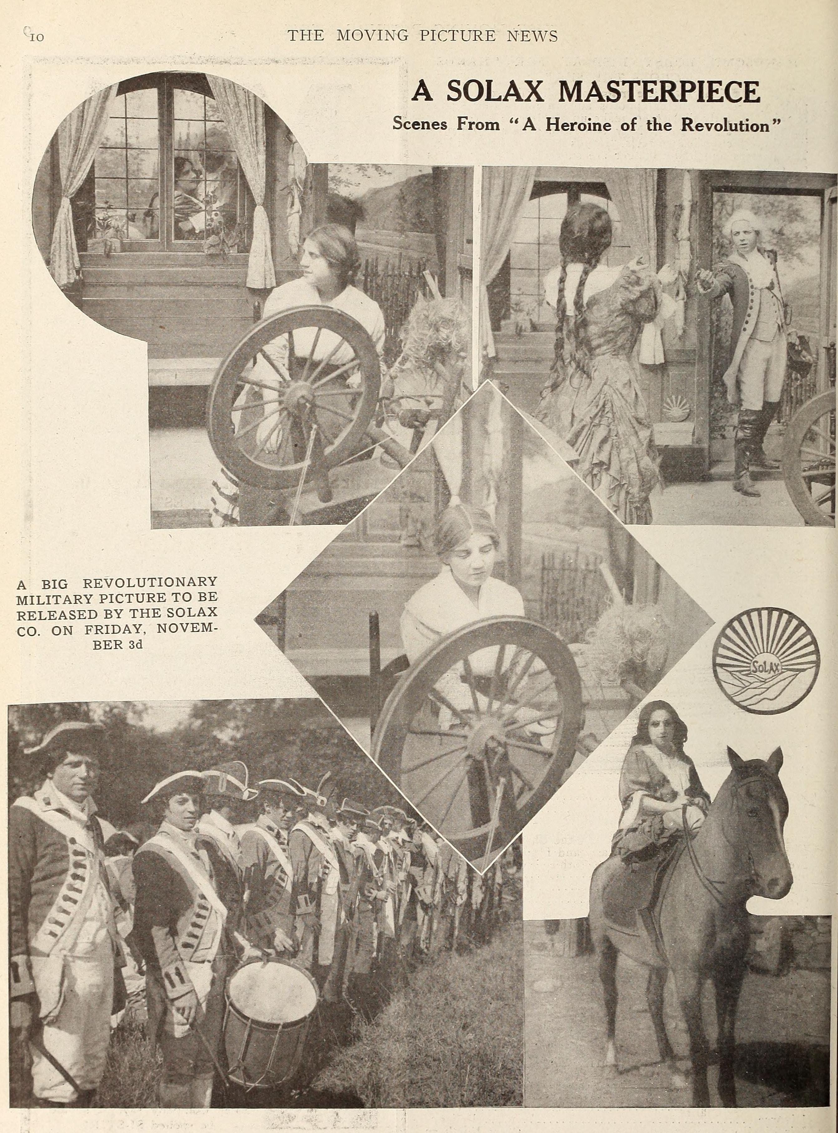 Title: Moving Picture News (1911) Year: 1911 (1910s) Authors: Subjects: motion pictures Publisher: Cinematograph Publishing Company Text Appearing Before Image: (R SISTER and take a tip, its a tip-top, typical Rex. Its oneof those pictures that bring your heart where yourthorax generally is. Youll have a tear in your eyeand a break in your voice—but see that the breakis not enough to prevent your yelling for it!Next Wednesday night say Nothin to do till to-morrow, but when Thursday dawns, be sure to GET HER SISTER because she belongs to the Rex family. 99 REX MOTION PICTURE MFG. CO. 573 ELEVENTH AVENUE,NEW YORK CITY Sales Company says it shouldbe spelled SI-STIR! Text Appearing After Image: THE MOVING PICTURE NEWS II TWO MAGNIFICENT PRODUCTIONS MONDAY, OCTOBER 23Mammoth Military Masterpiece The Drummer Boy of Shiloh Splendid Cast of 200 PeopleCODE, SHILOH FRIDAY, OCTOBER 27A Magnificent Gypsy Production A Flower of the Forest A Realistic Representation of Life of theNomad Tribe with a Cast of 150 THESEREELS WILL BEAR REPEATING CODE, FOREST YANKEE FILM CO. 344 E. 32nd STREET, NEW YORK CITY SOLAX RELEASE FOR NOV. 3D On the previous page appear illustrations from a verj ex-cellent Solax tilm, which is to be released on November 3d,entitled A Heroine of the Revolution. The story runsthus: Ruth Fairfax lived with her widowed mother on thebanks of the Potomac. She was in love with Will Rathburn.Will joins Washingtons armj- and is made a captain. Theregiment is encamped near her home, and one day whilegoing to the spring she sees an American soldier approachingat high speed with a message. At the same time two Britishsoldiers loom up in another direction. Ruth at once realizest